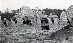 La Verte-Feuille Farm after its capture by the 2nd Infantry Division (United States) on the morning of 18 July 1918. At about the same time supporting tanks circled around the farm, elements of the 5th Marines charged out of the Foret de Retz to capture the farm.